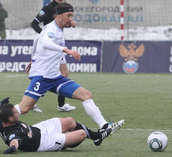 Uladzimir Karytska playing for FC Dynamo Bryansk.